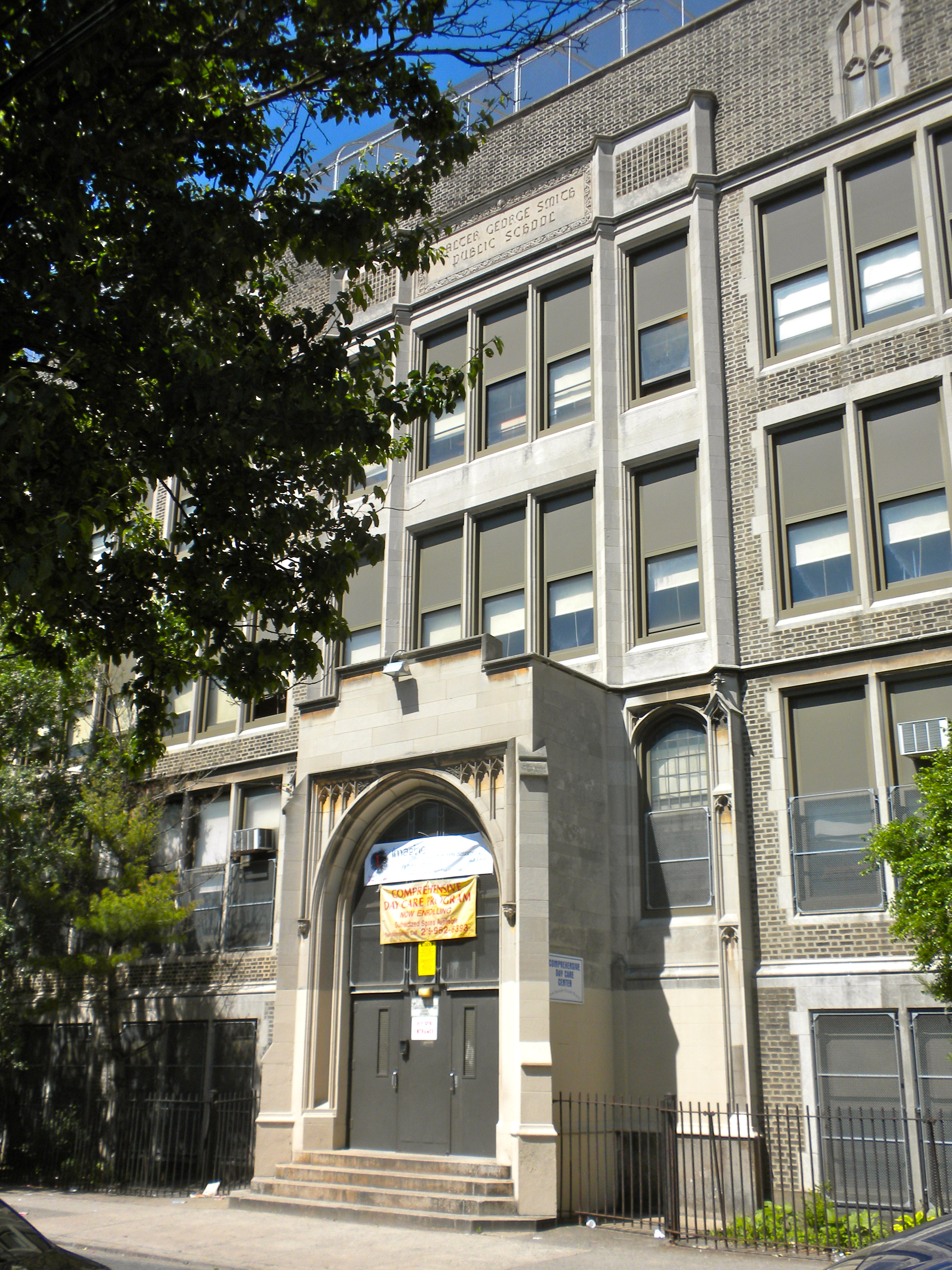 Walter George Smith School on NRHP since December 4, 1986. At 1300 South 19th Street in the Point Breeze neighborhood of south Philadelphia.